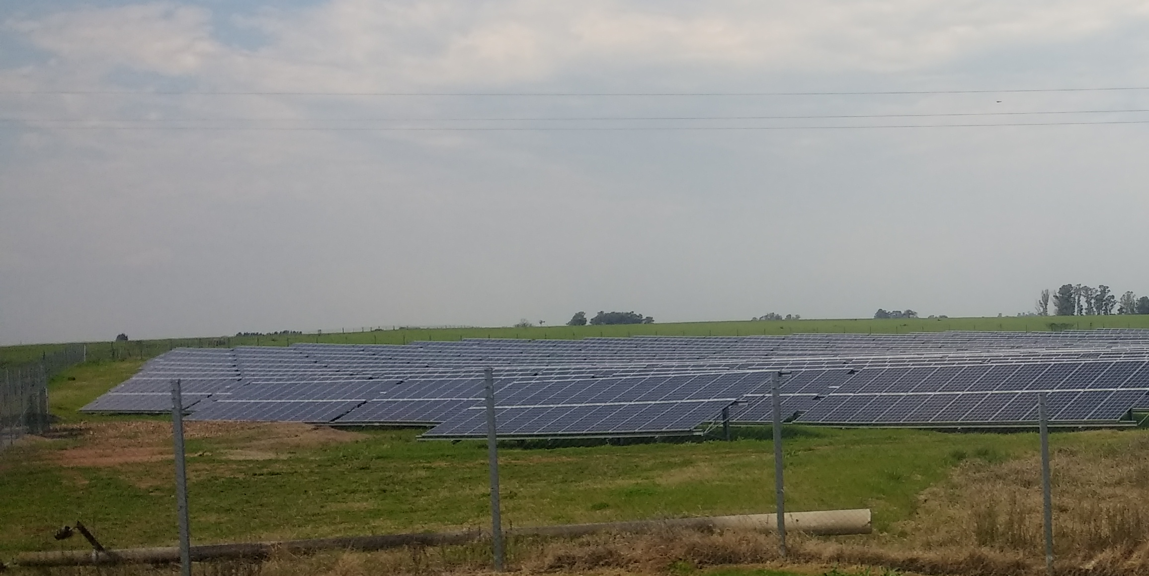 Solar panels in Paysandú Department, Uruguay.